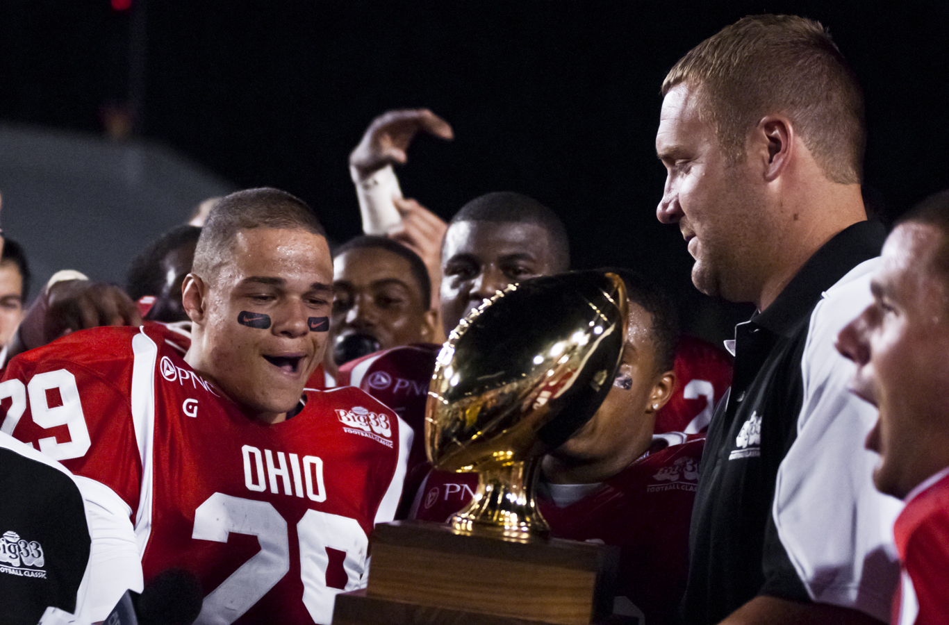 Ben Roethlisberger presents the Big 33 trophy to Ohio, who won 24-21 in overtime. Game was on June 16, 2012.